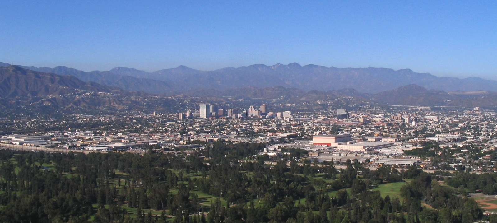 Looking northeast from Griffith Park. Downtown Glendale is in the middle ground, and the San Gabriel Mountains are in the background.